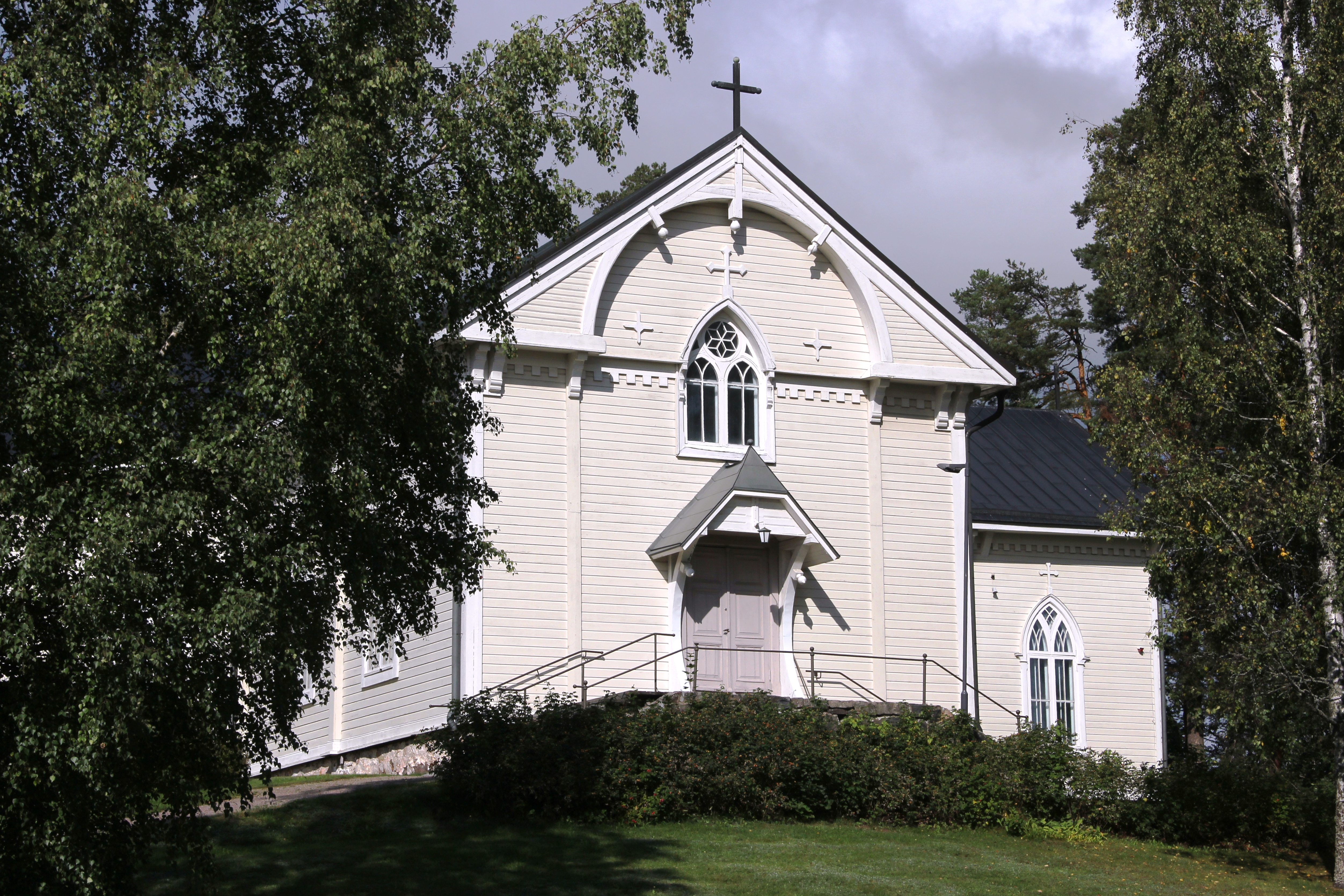 Askola Church, southern end, Askola, Uusimaa, Finland